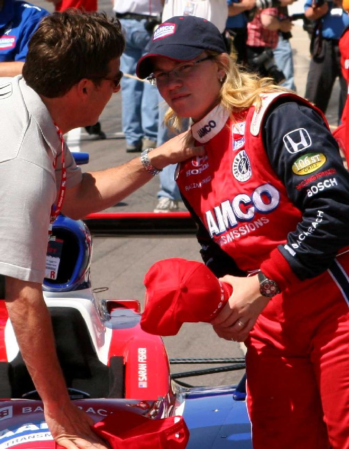 Sarah Fisher after successfully qualifying for the 2007 Indy 500.